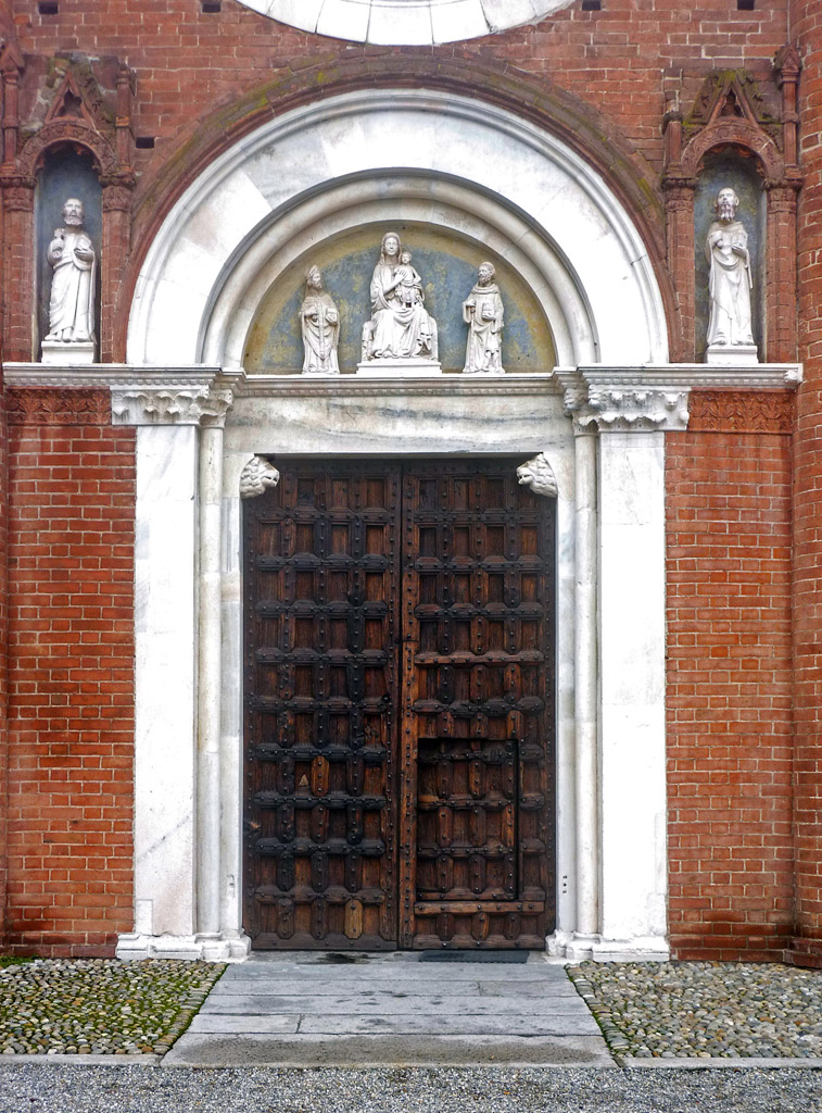 The front door of the former Viboldone Abbey at San Giuliano Milanese, near Milan, Italy